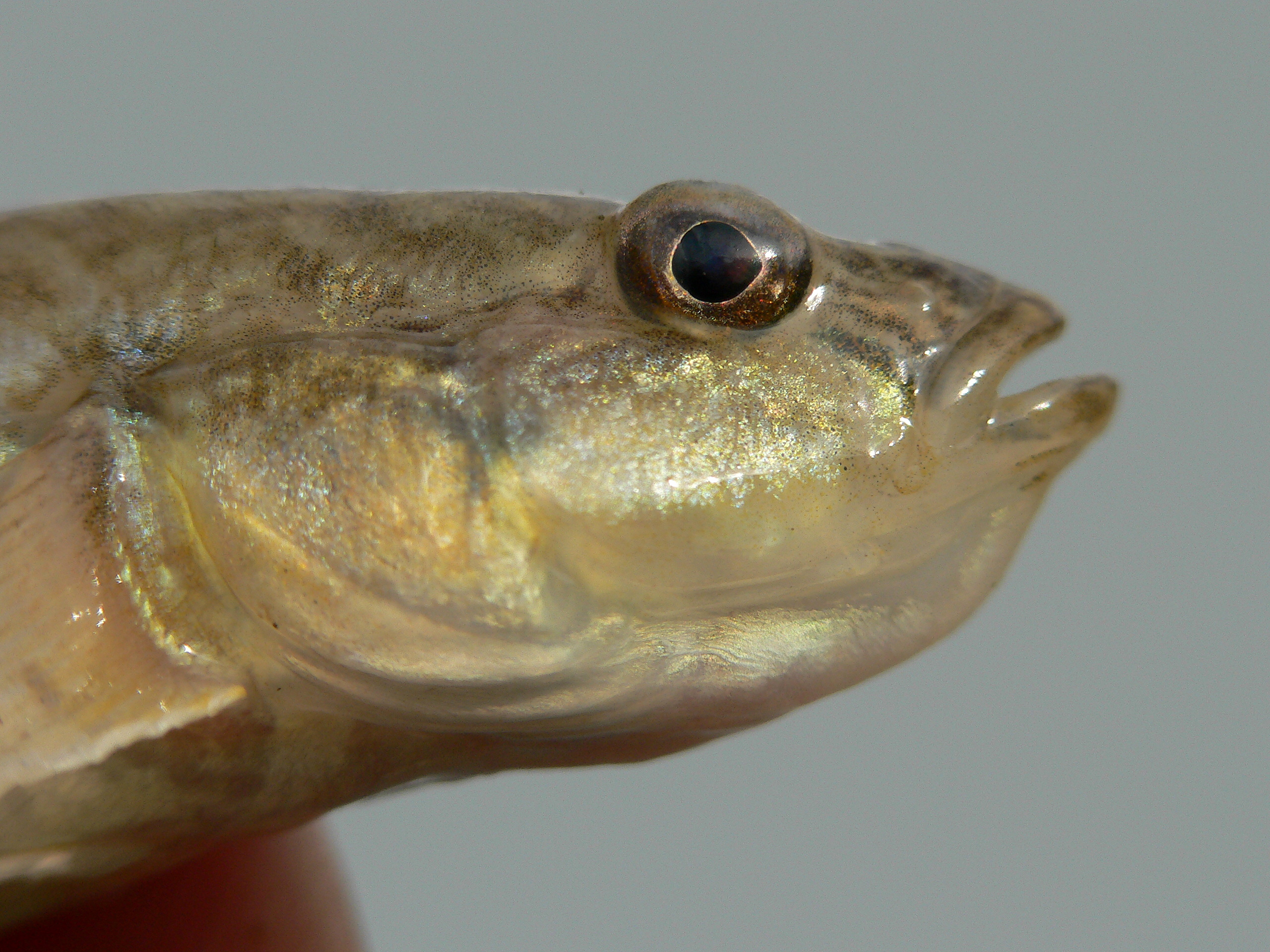 Neogobius fluviatilis an invasive species from the Danube here in the river Rhine at Arnhem.